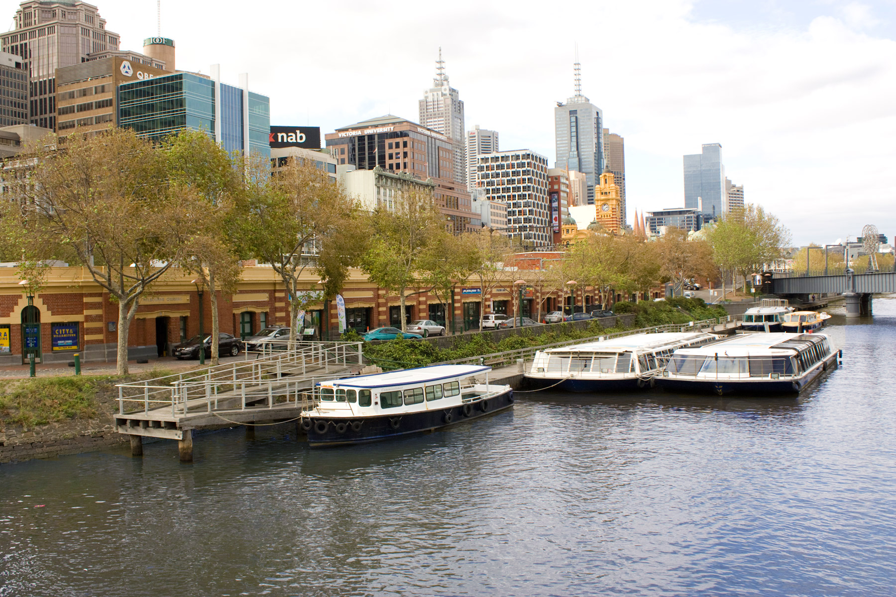 Cruise boats on the Yarra